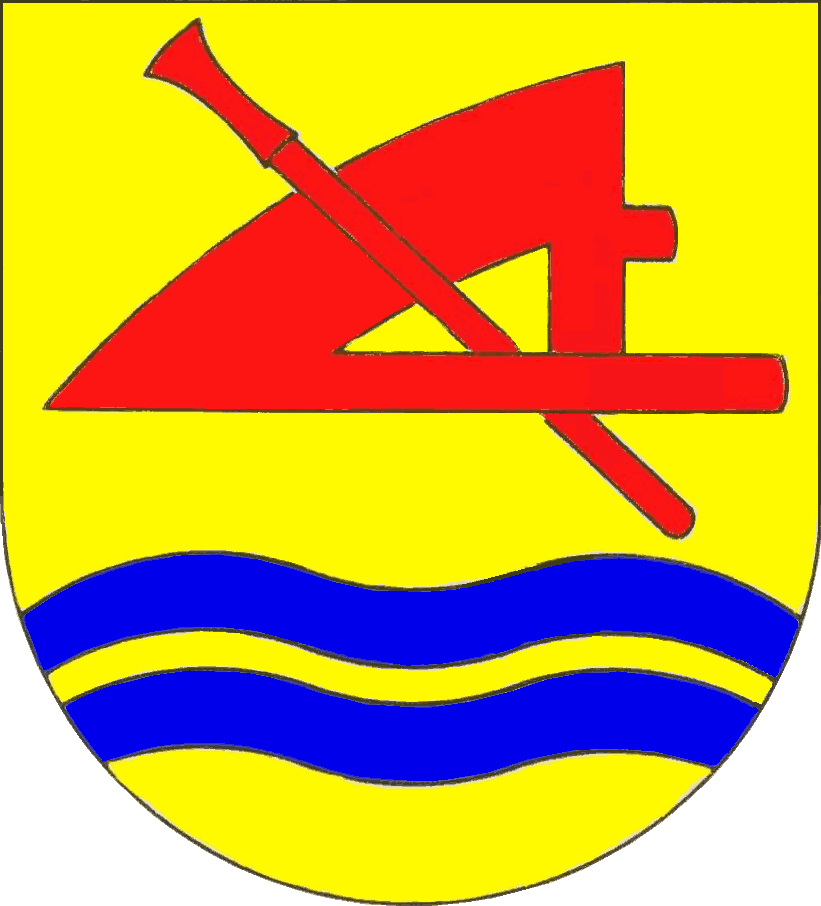 Coat of arms of the municipality Mildstedt in Schleswig-Holstein, Germany